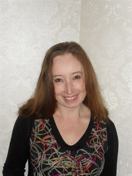 Fotografie spisovatelky Jany Dohnalové, Londýn, 2014